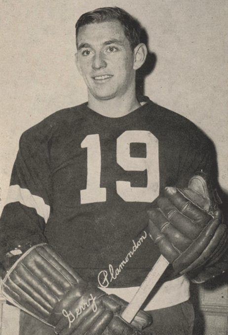 Gerry Plamondon, circa 1943/8